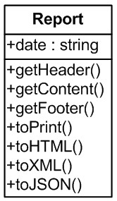 GodObject